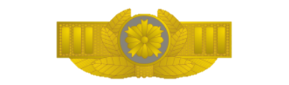 Brooch rank insigna for superintendent supervisor of japanese police